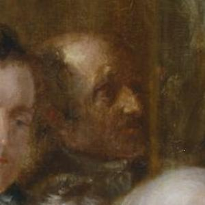 Samuel Fox (1781-1868) started adult schools and nottingham building society. Here he is at the back of the British and Foreign Anti-Slavery Society in 1840. Note this is an extract from a much larger painting.